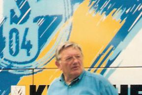 Charlie Neumann at the 7th of July 1996